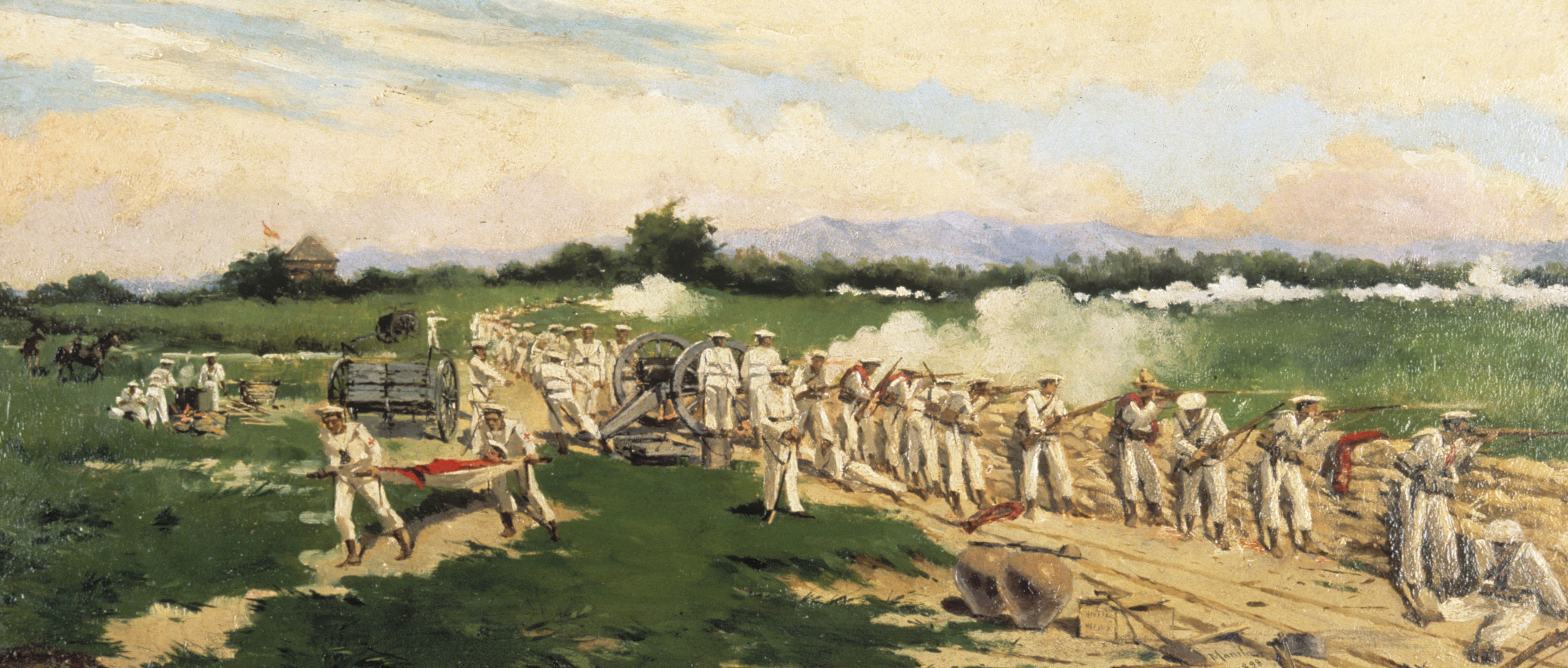 Spanish marines at a trench in the Philipines during the Spanish-American war of 1898.